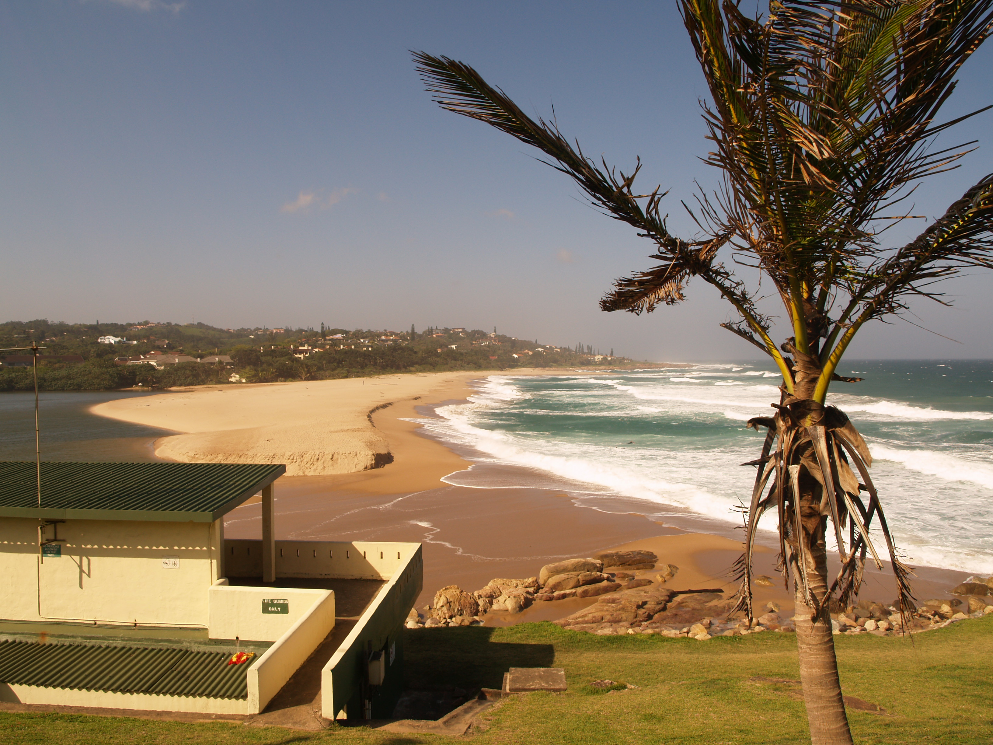 Southbroom Beach, Hibiscus Coast municipality, KZN, South Africa.